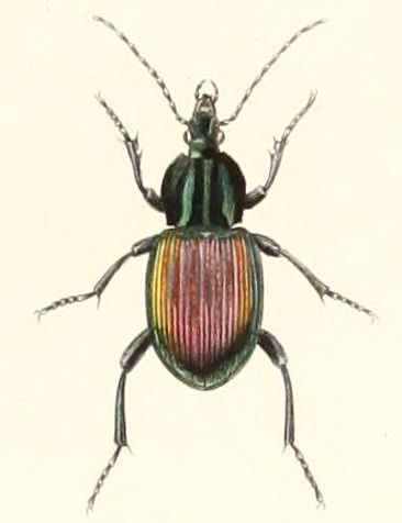 « Brachygnathus pyropterus » = Brachygnathus pyropterus